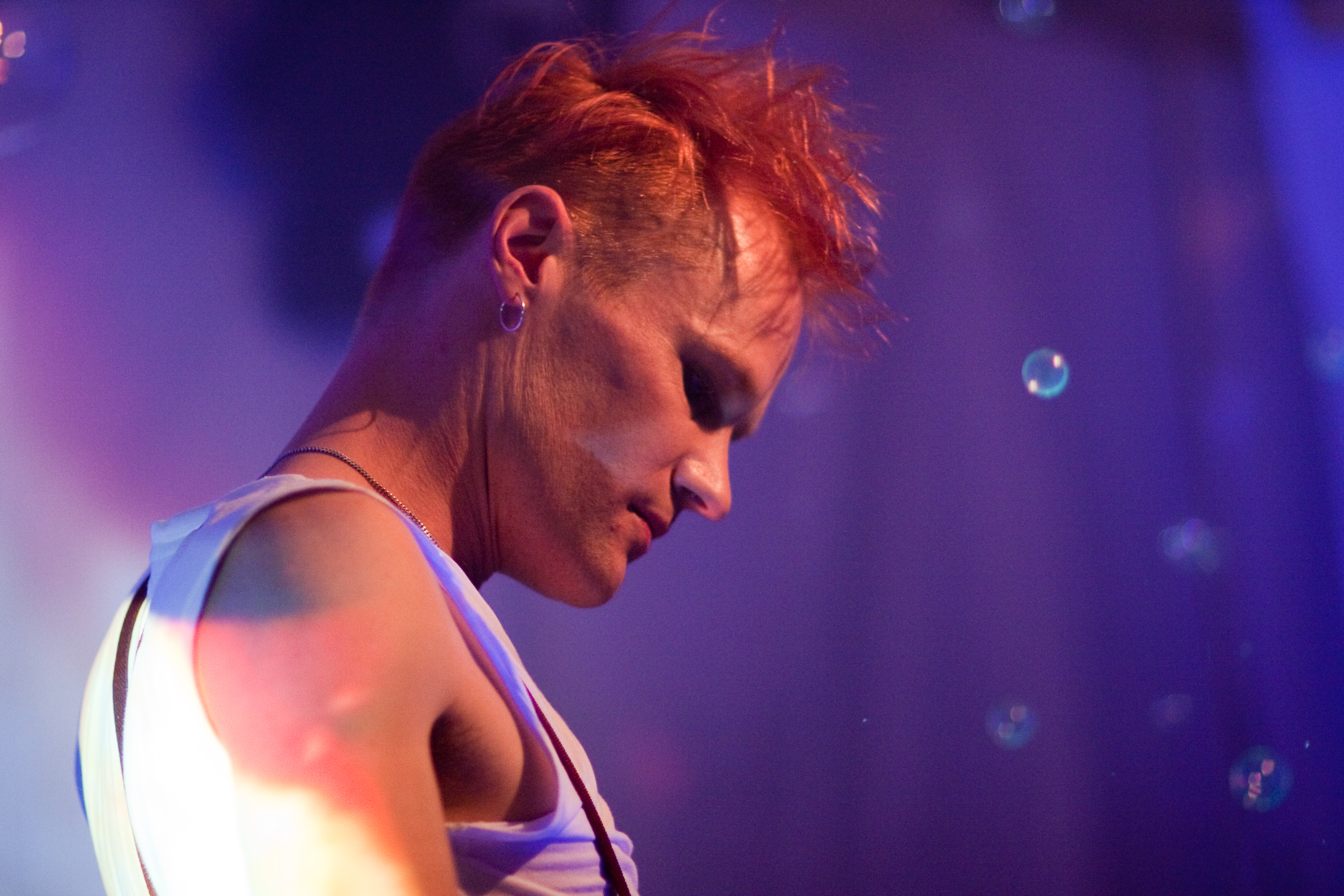 Swedish musician Nicklas Stenemo from Kite and Melody Club